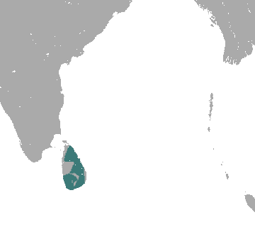 Toque Macaque (Macaca sinica) range